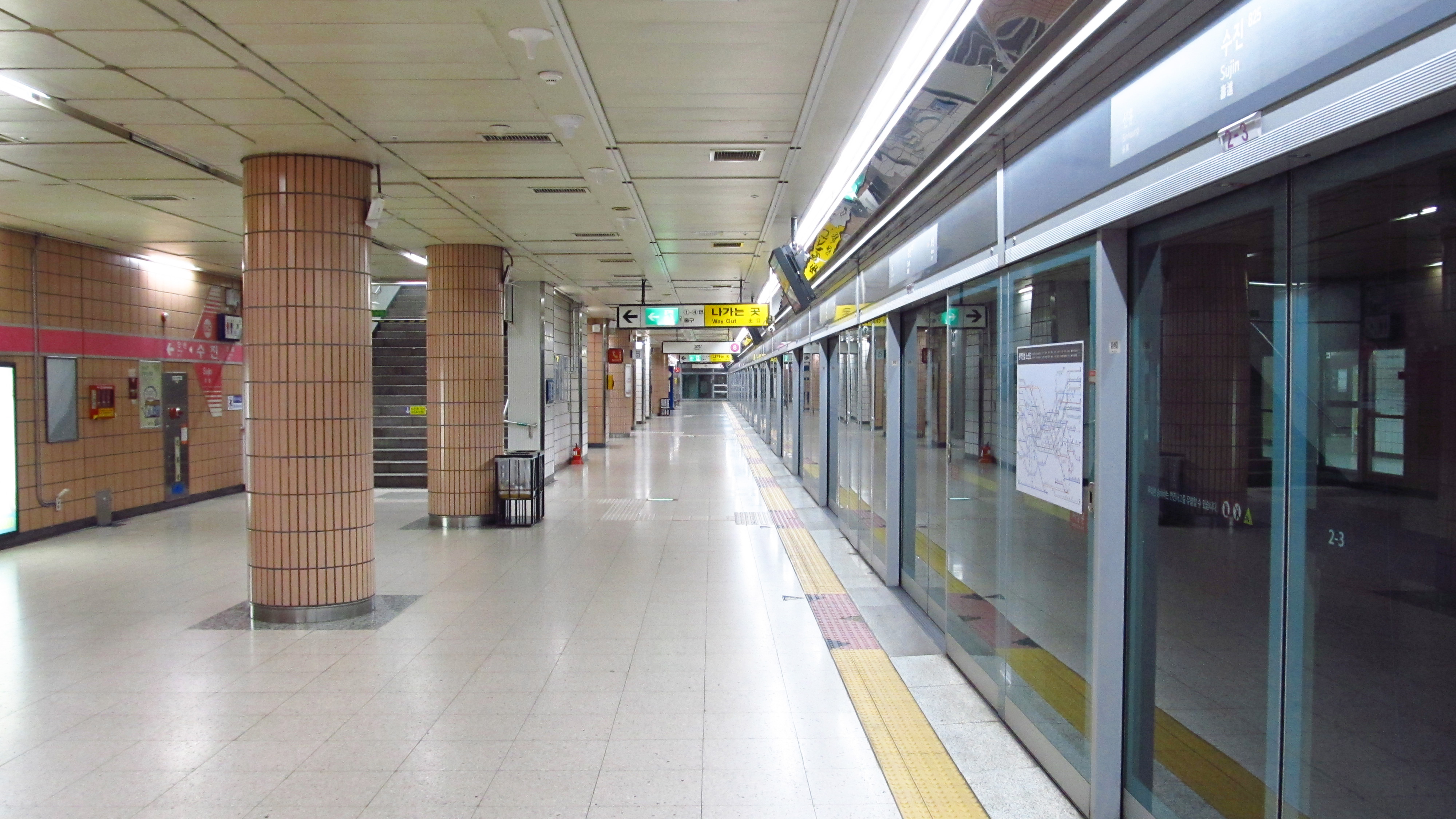 The platform at Sujin Station on Seoul Subway Line 8 in Seongnam city, Gyeonggi-do(province), Republic of Korea(South Korea)